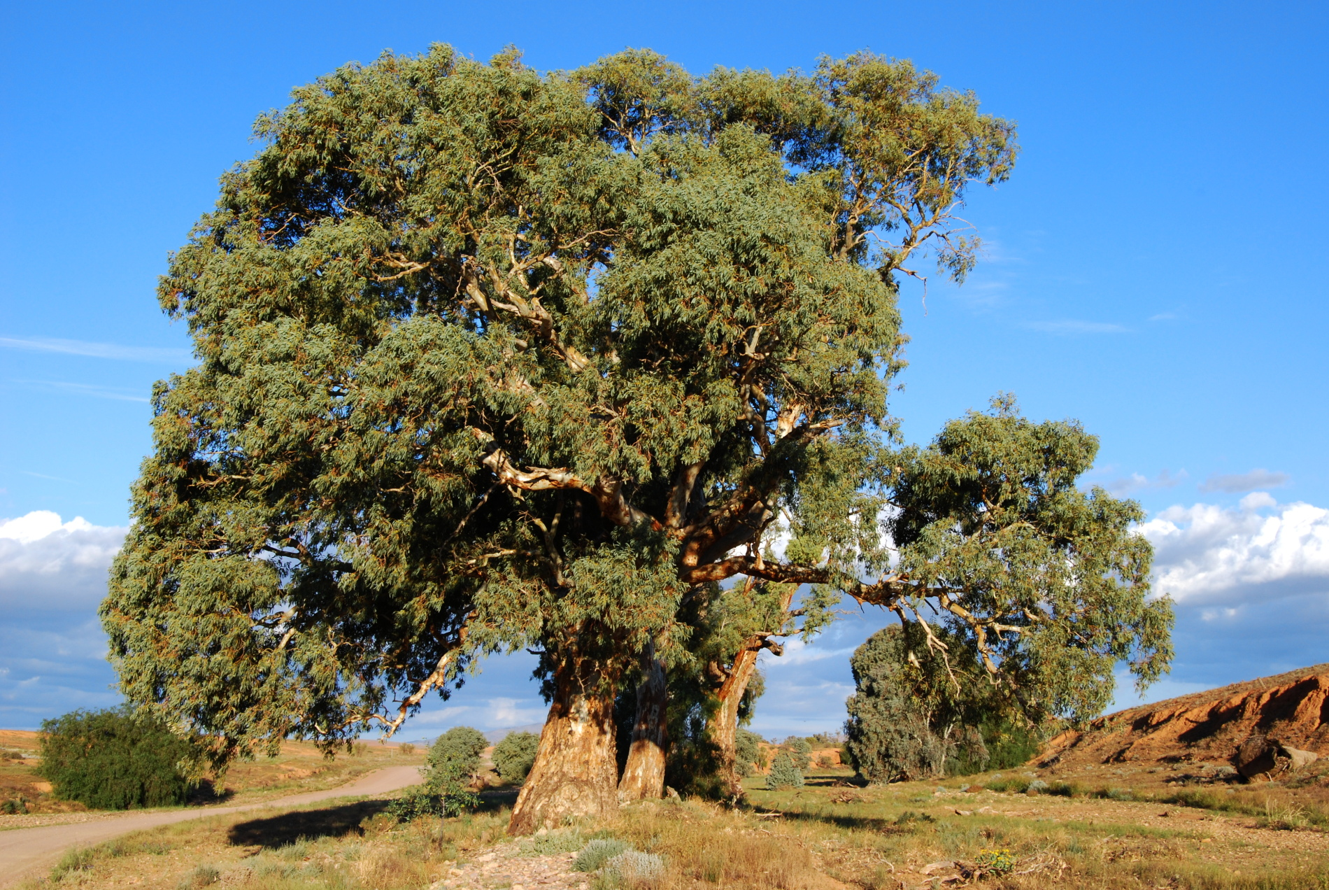 River Redgum in a dry creekbed nearing sunset. Just south of the Flinders Ranges National Park.